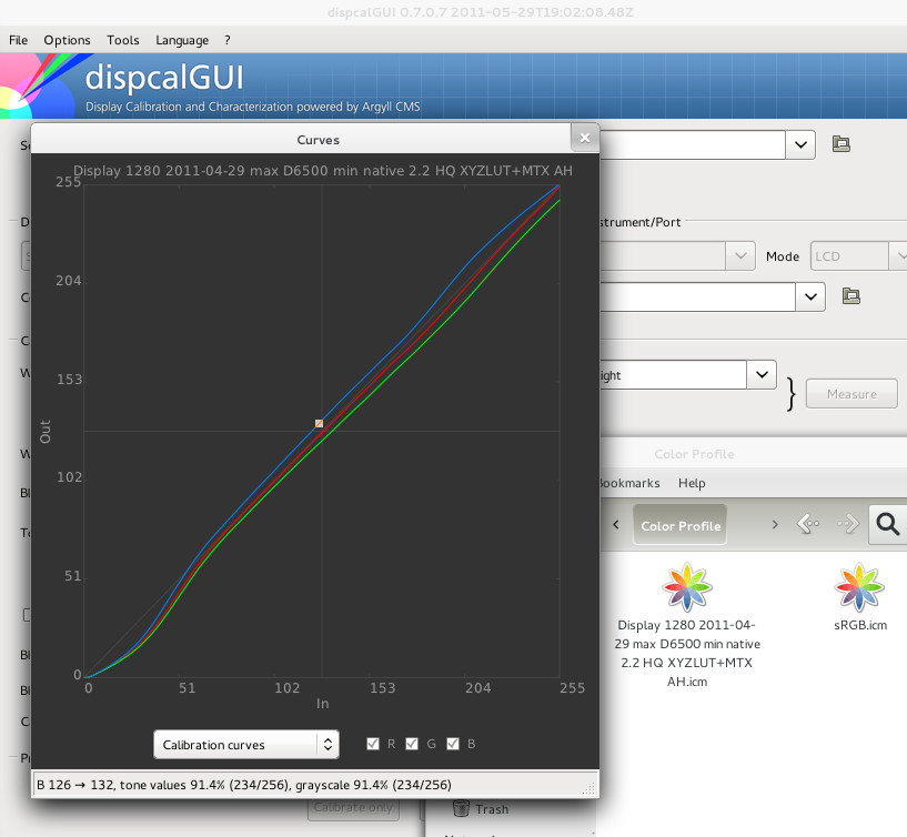 A set of color calibration curve from an icc profile, displayed in DispcalGUI in Fedora Linux.中文（中国大陆）: 来自一个ICC色彩特性文件的一组色彩校准曲线，显示在Fedora Linux下运行的DispcalGUI中。